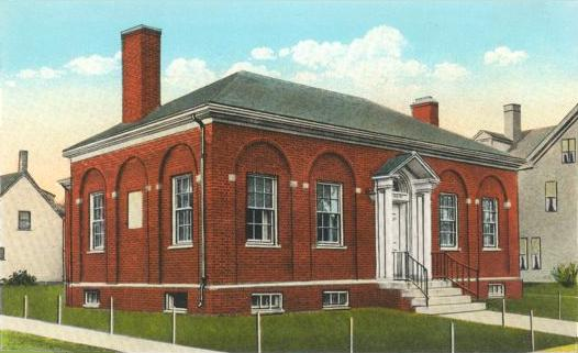 Public Library, South Paris, Maine. It was designed by John Calvin Stevens (1855-1940).